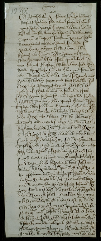 Petr I Order (Ukase) No.1736 20 december 1699